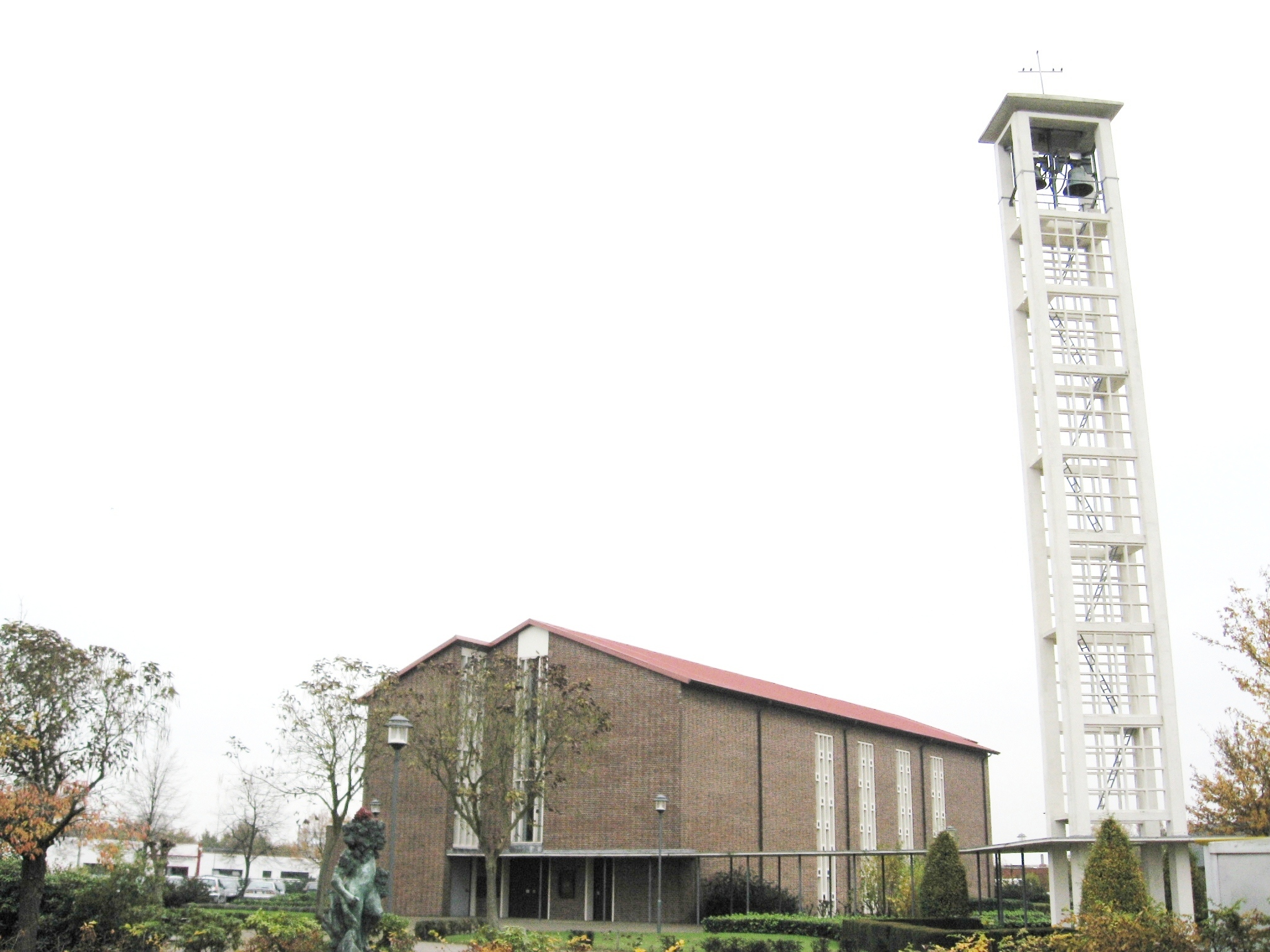 Church of Saint Willibrord in Neerpelt (Herent), Limburg, Belgium